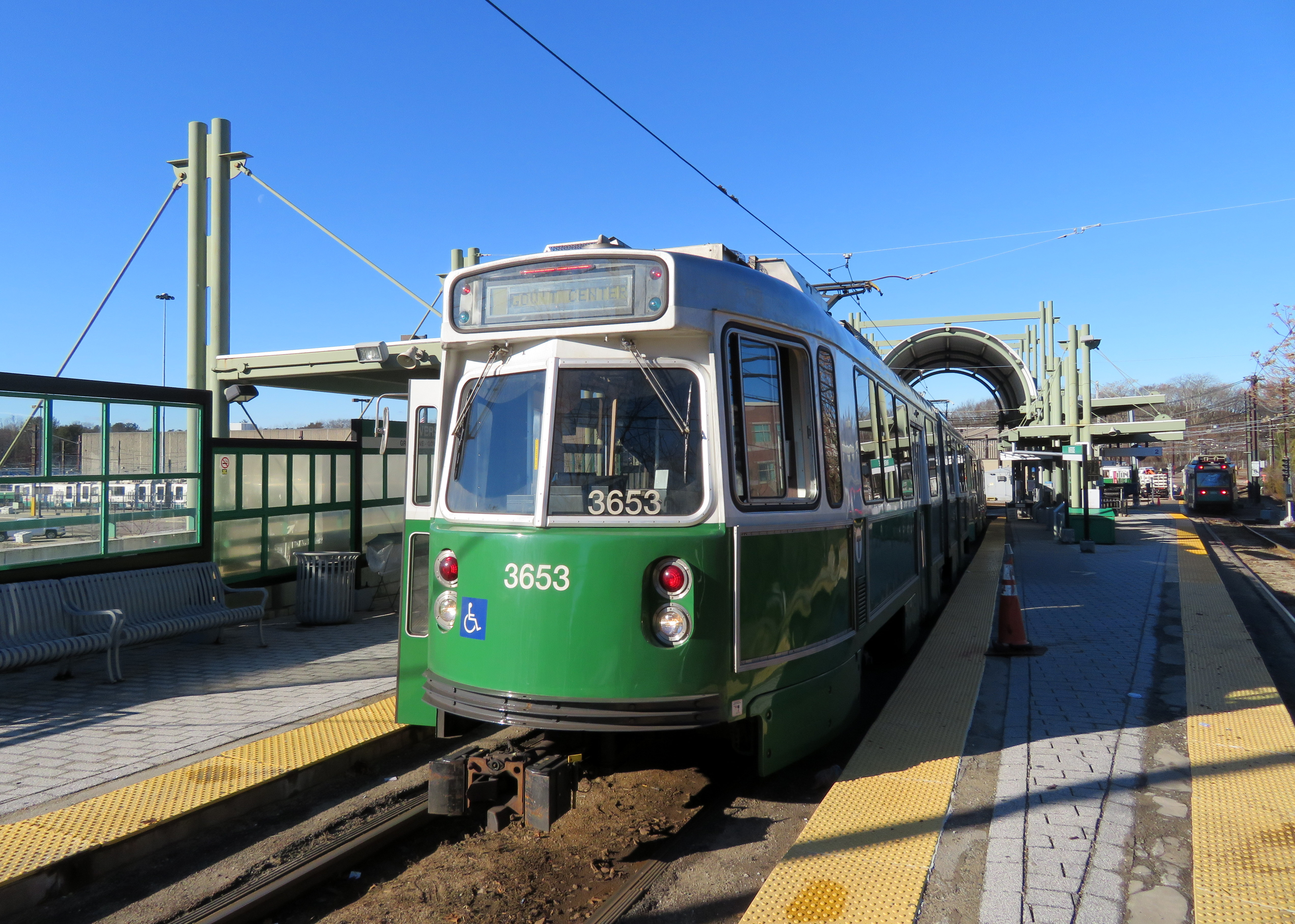 A train ready to head inbound at Riverside station in December 2018